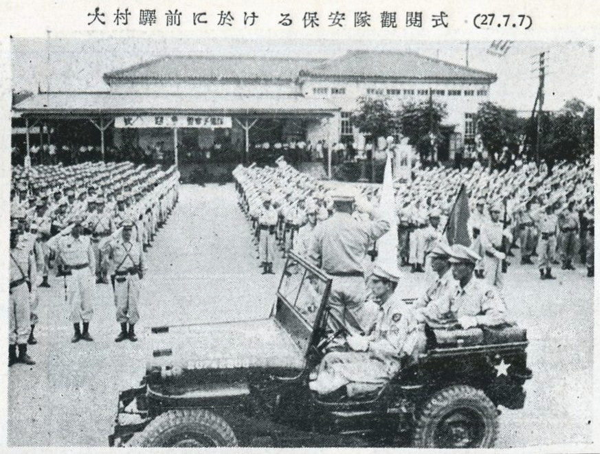 Unit of the National Police Reserve on parade at Omura Station in Nagasaki